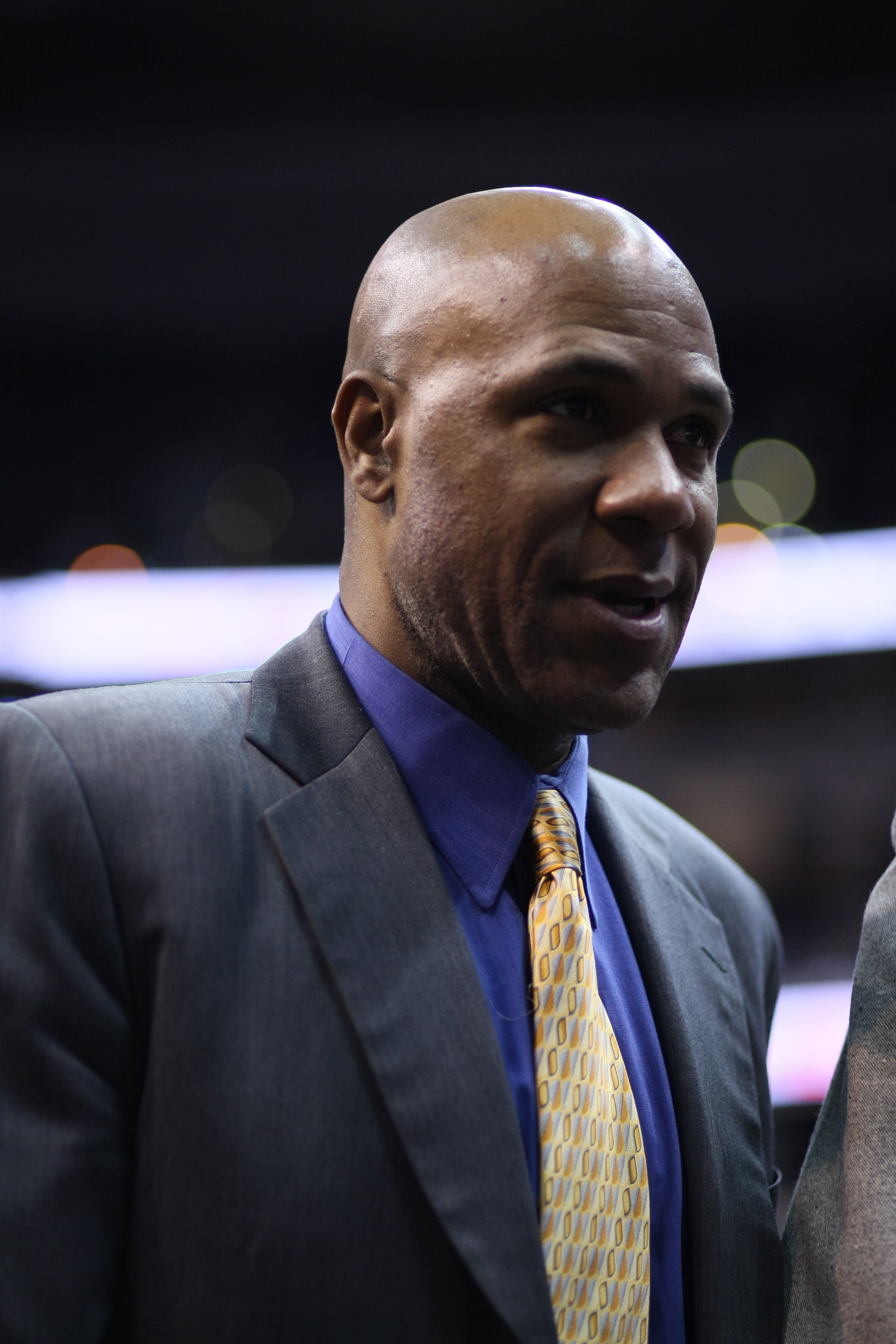 Photo of Mario Elie